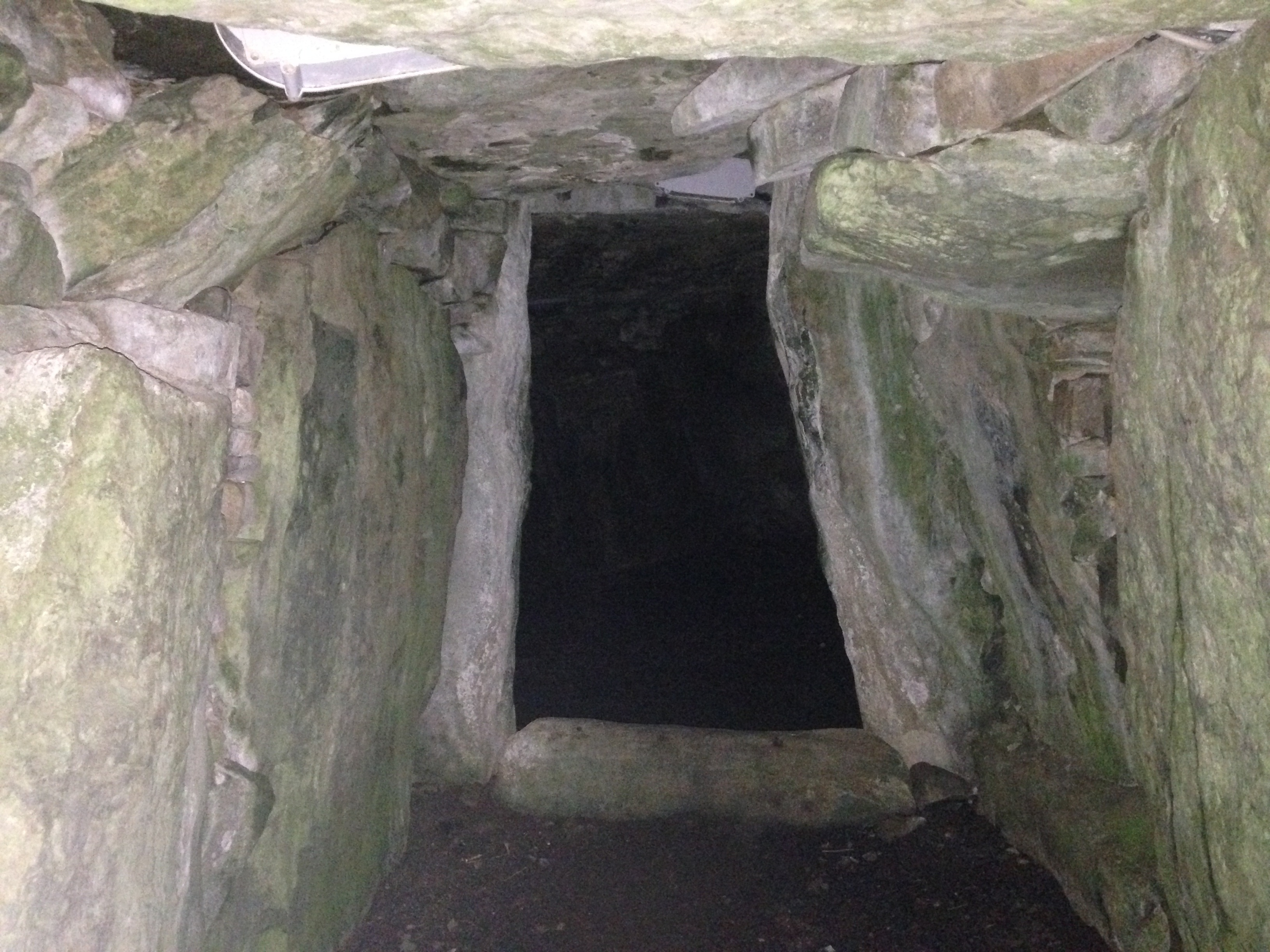 West entrance chamber at Dowth